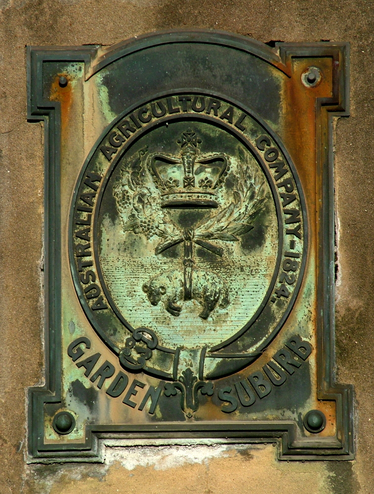 Historic Plaque referring to the Australian Agricultural Company. Dated 1914.